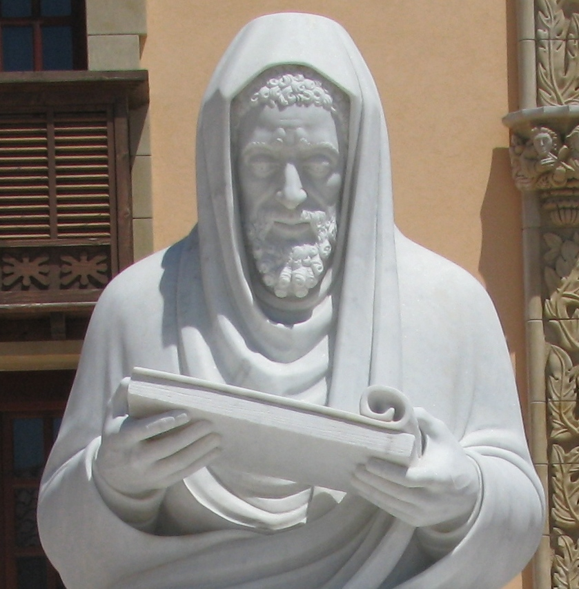 Sculpture of Judah Halevi